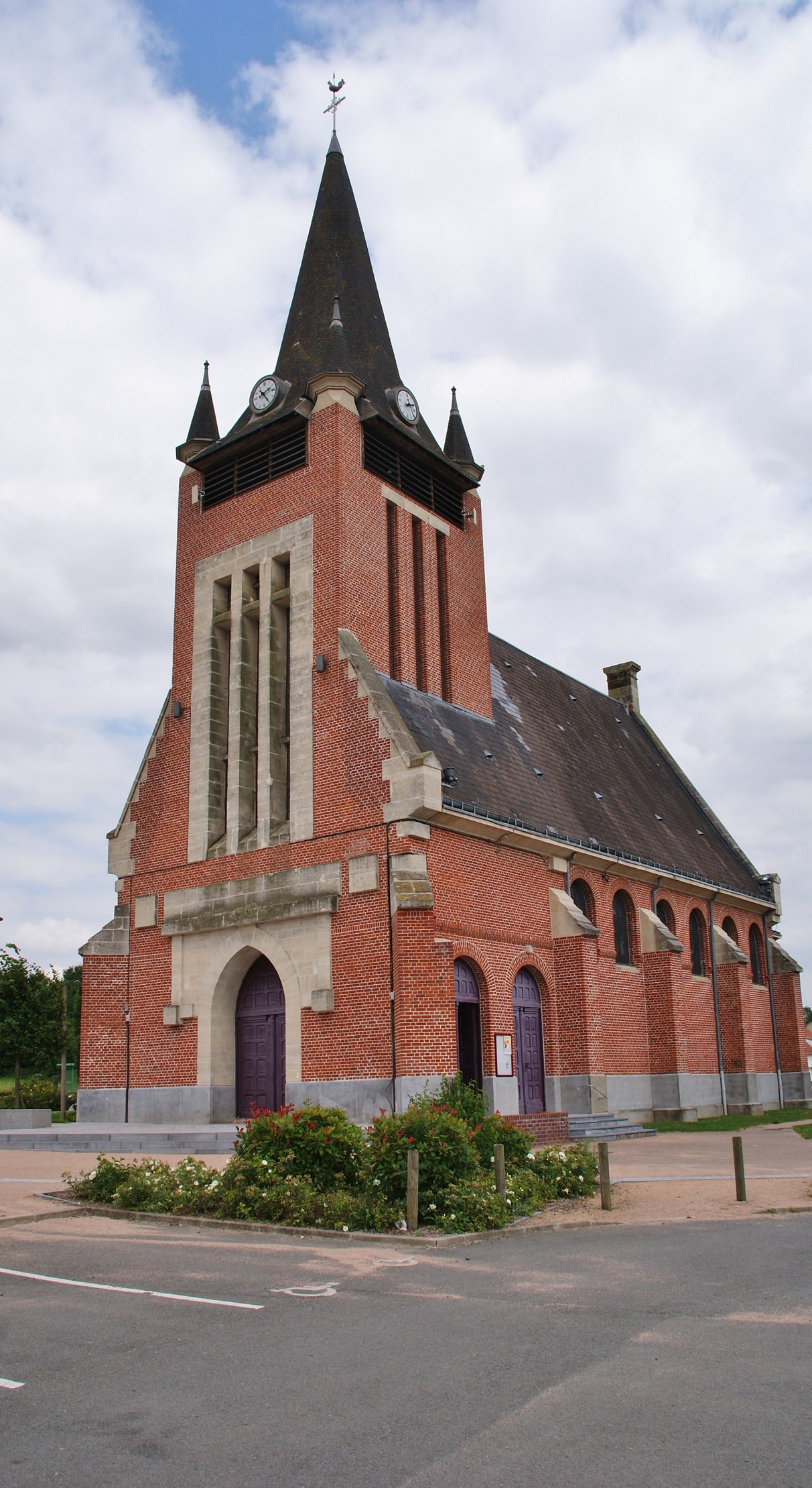 église St Vaast